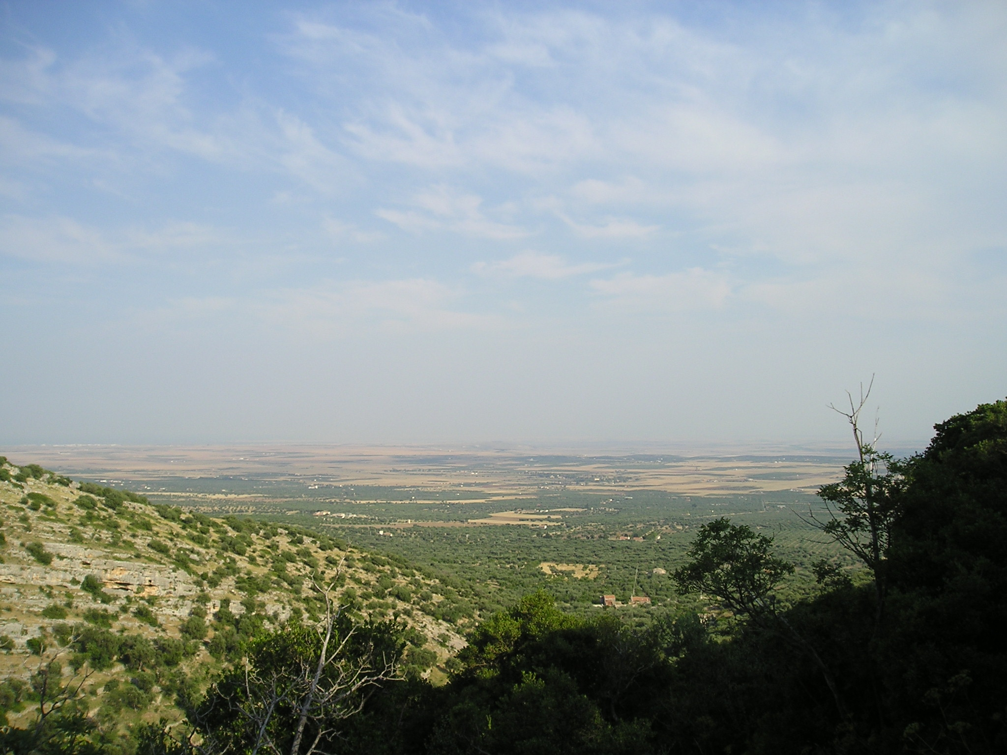 same name file in , released in PD